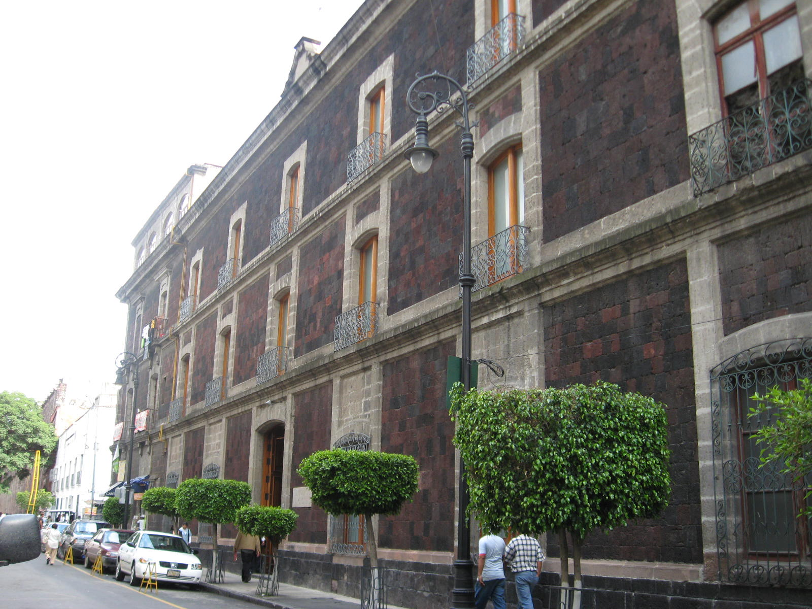 The Colegio Nacional Building, located on Luis Gonzalez Obregon Street in the Centro of Mexico City